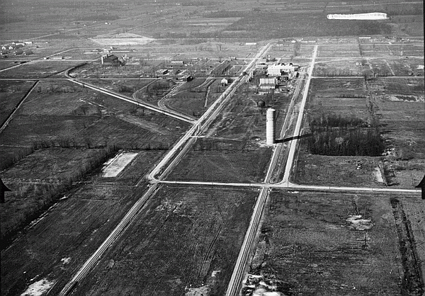 Lake Ontario Ordnance Works, looking west from Porter Center Road